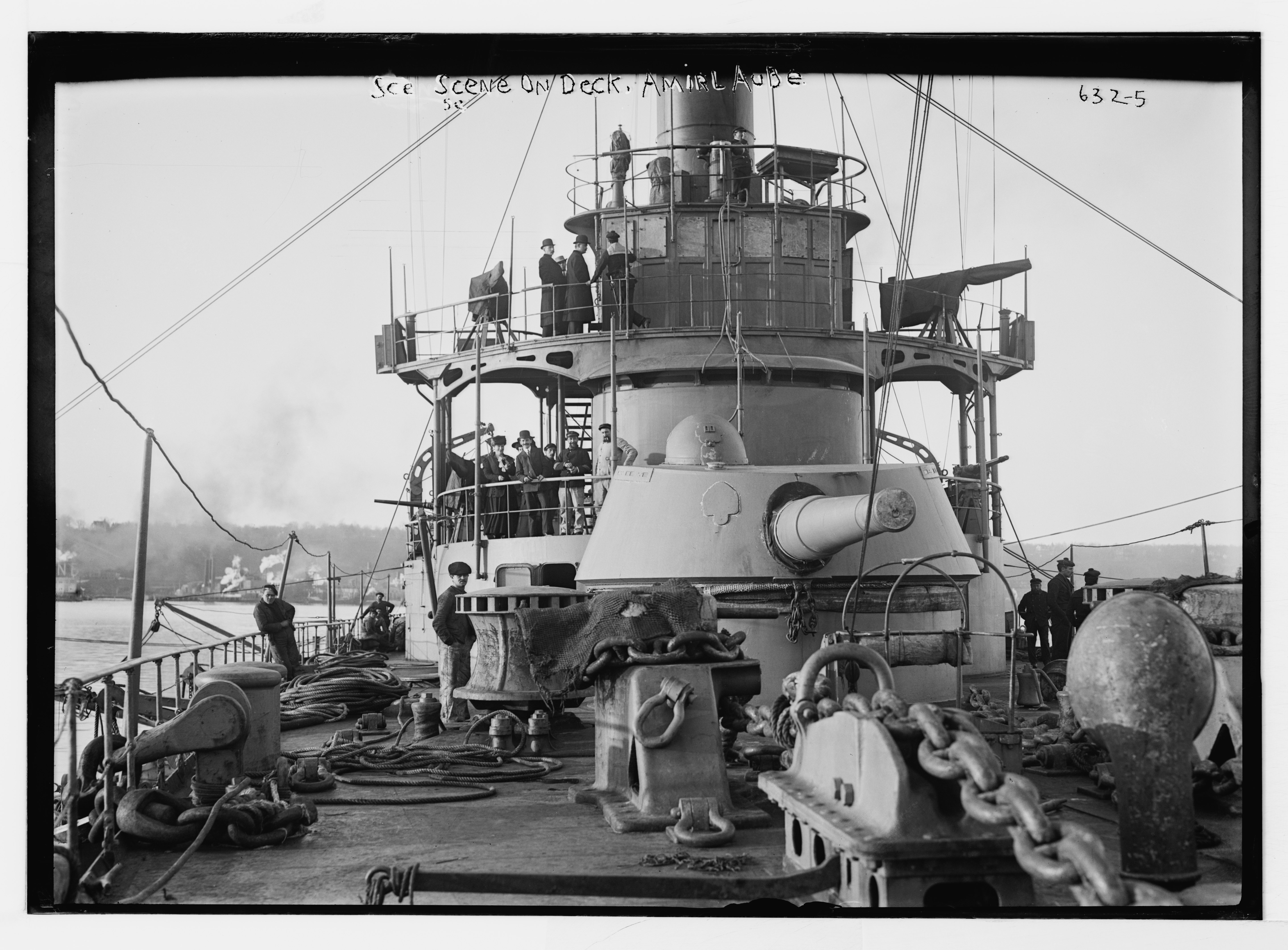 Title: Deck scene aboard Amiral Aube, French ship Abstract/medium: 1 negative : glass ; 5 x 7 in. or smaller.